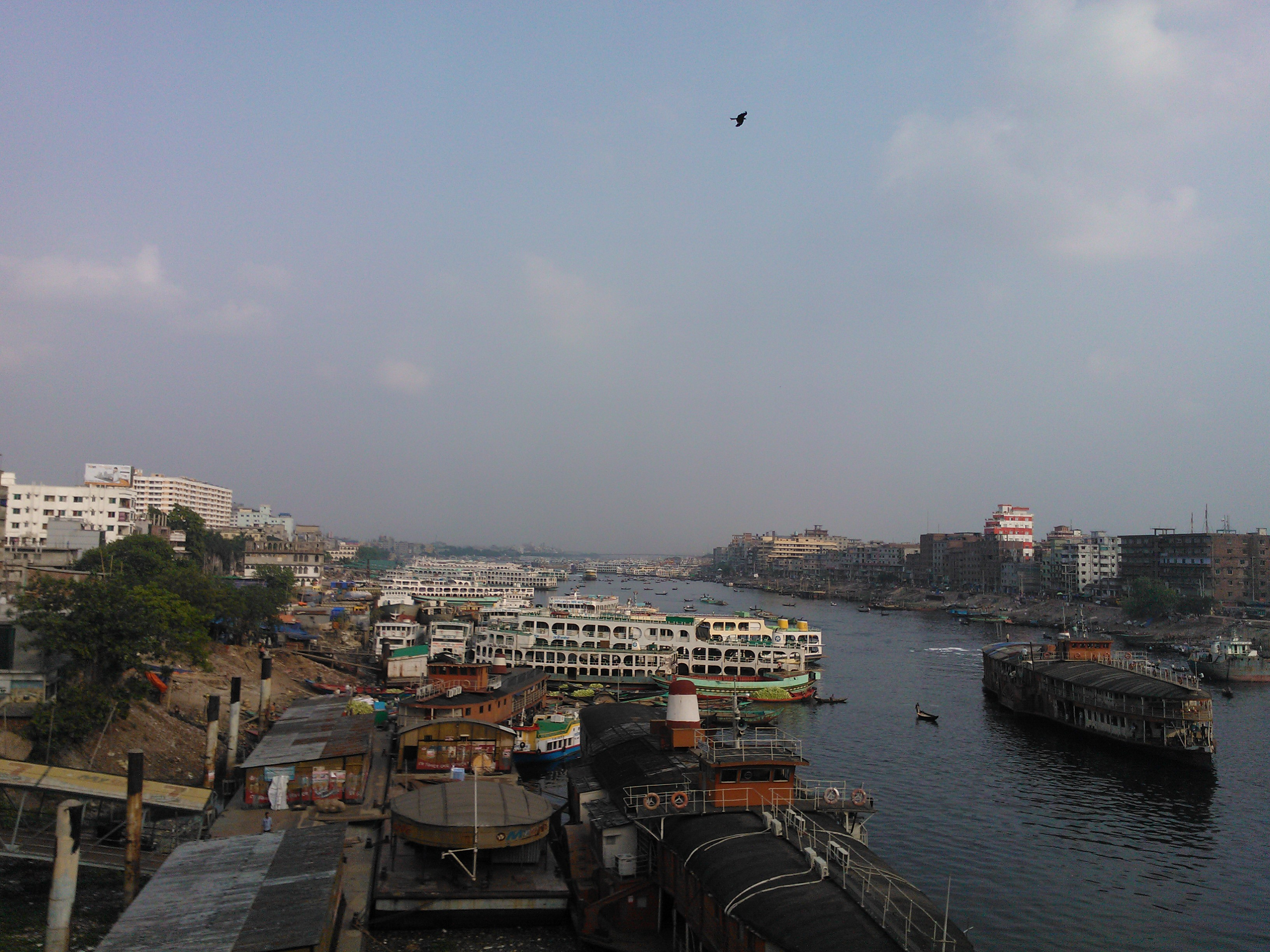 Port of Sadarghat